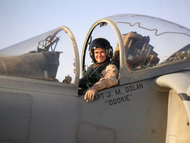 Jenna Dolan sits in the cockpit of an AV-8B Harrier at Marine Corps Air Station (MCAS) Cherry Point, North Carolina, United States